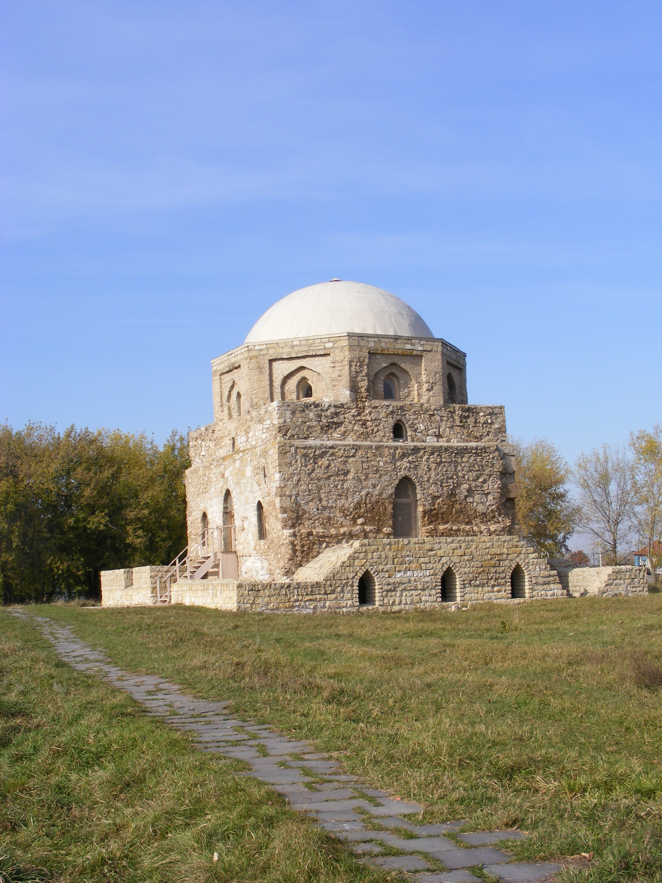 "Black chamber" in Bolgar, Tatarstan, Russia